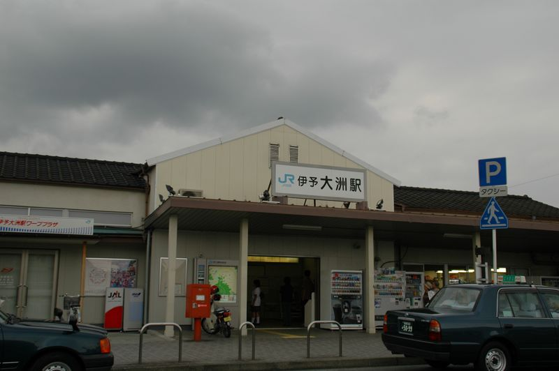 JR Shikoku Yosan Line Iyo-Ozu Station